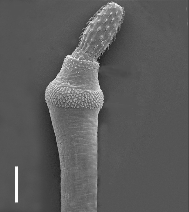 Praesoma of Bolbosoma vasculosum from Lepturacanthus savala (Indonesia, Indian Ocean) formed in the shape of a bulb, and armed with regular hooks which are arranged in two rings. Bar length is 200 μm.